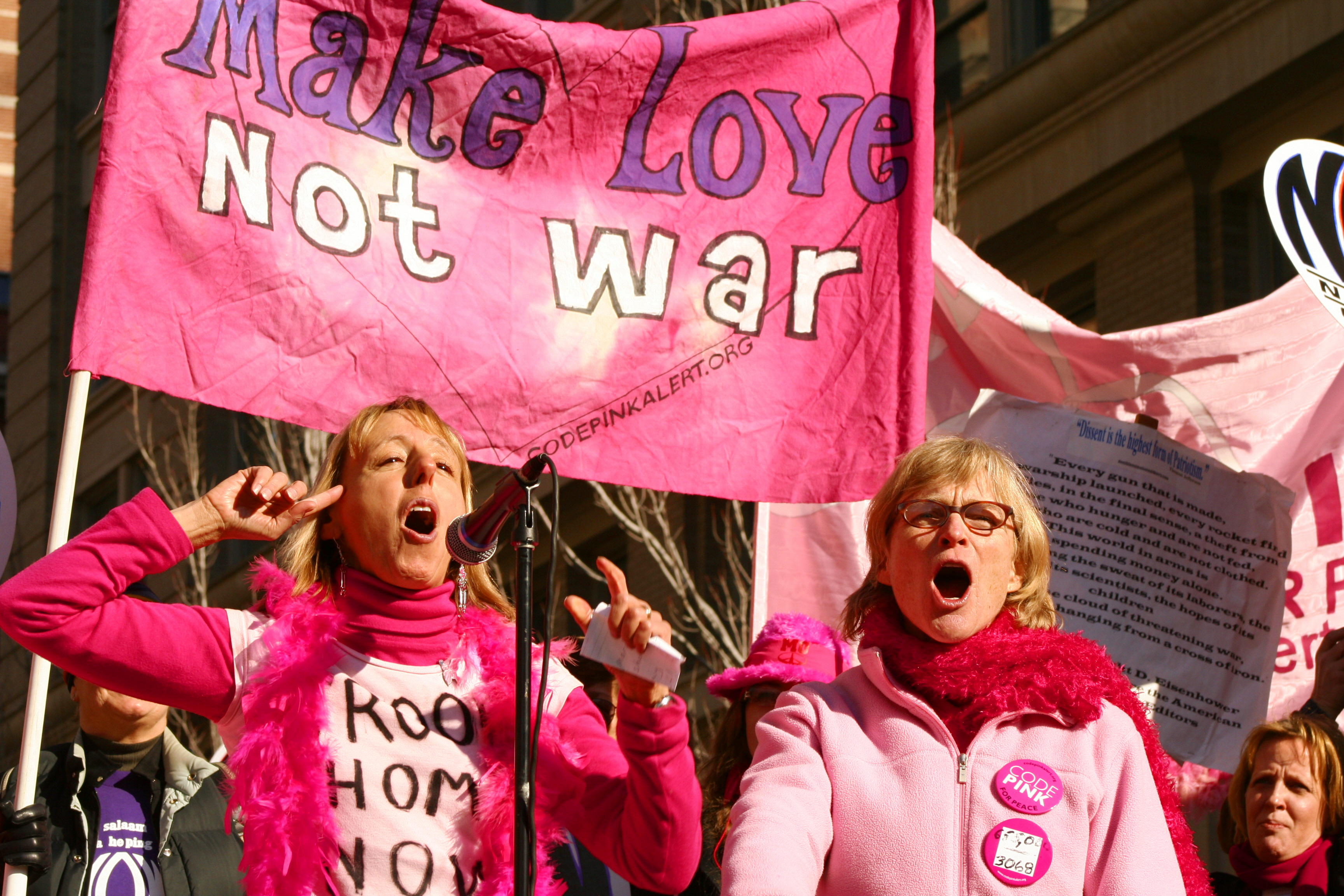 Medea Benjamin and Gayle Murphy . J27 - Code Pink - Women Say Pull Out! . . US Navy Memorial . 801 Pennsylvania Avenue, NW . WDC . Saturday morning, 27 Janaury 2007 . Elvert Xavier Barnes Protest Photography